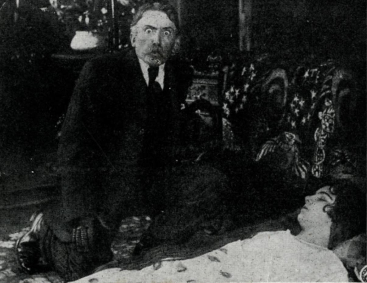 Screenshot from the film Fantômas by Louis Feuillade